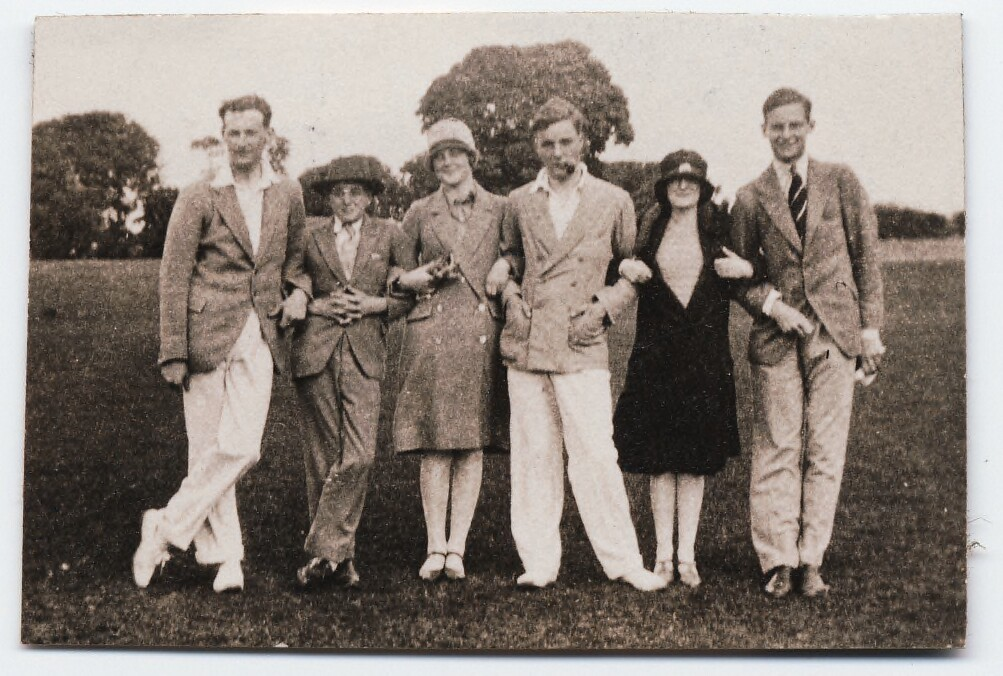 Winston Churchill and his children with the Mitfords